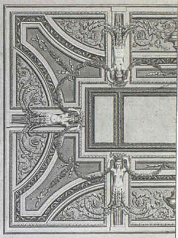 Design for a stucco decoration by Alberto Giocondo, 1742-1839, Ink and Watercolor on Paper, 31,4 x 40,8 cm